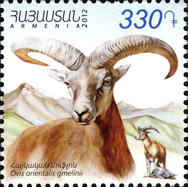 Flora and Fauna of Armenia - Armenian mouflon